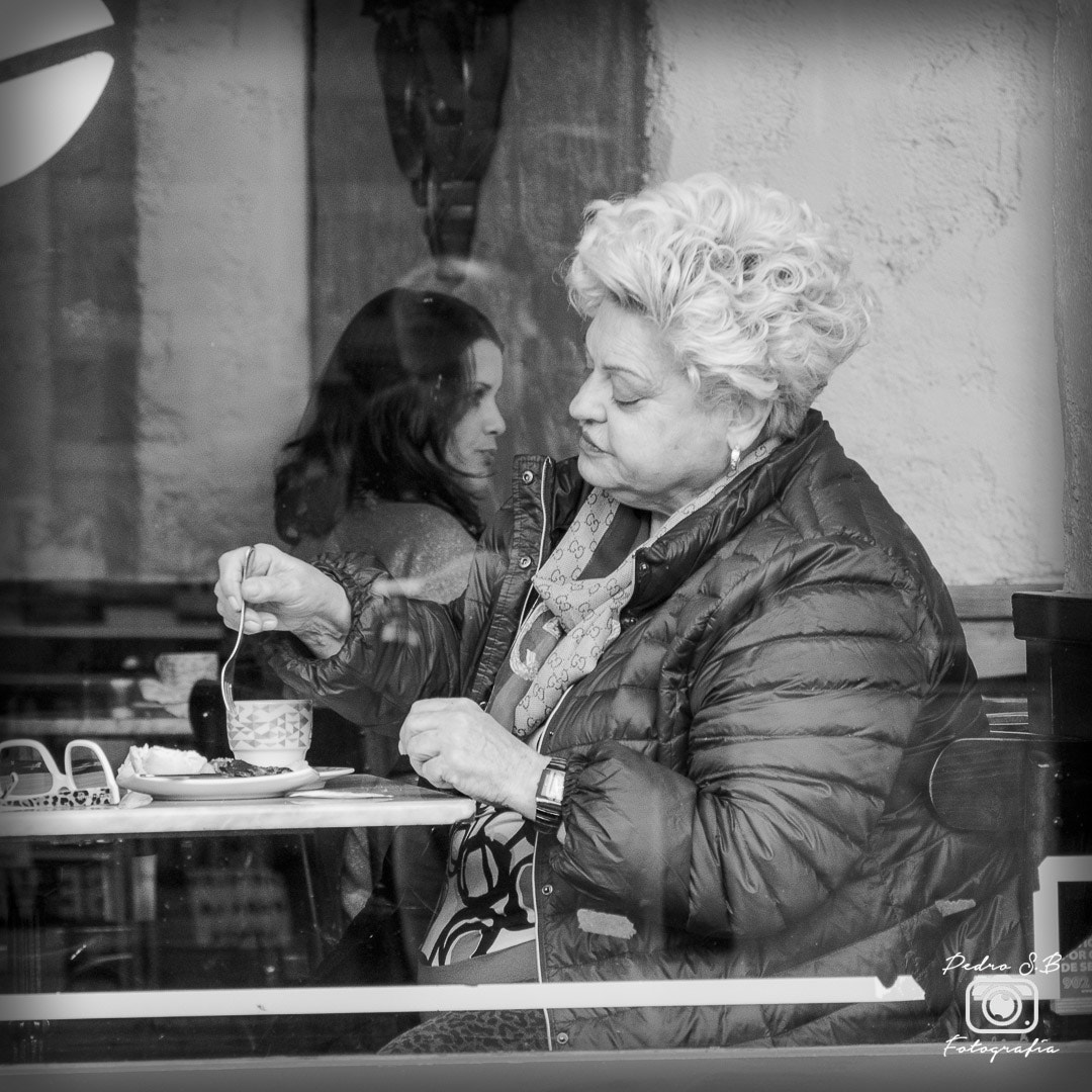 500px provided description: OLYMPUS DIGITAL CAMERA [#bw ,#photo ,#photography ,#blackandwhite ,#photographer ,#foto ,#bn ,#fotografia ,#salamanca ,#blancoynegro ,#fotocallejera ,#elcontraluz ,#fotocalle]